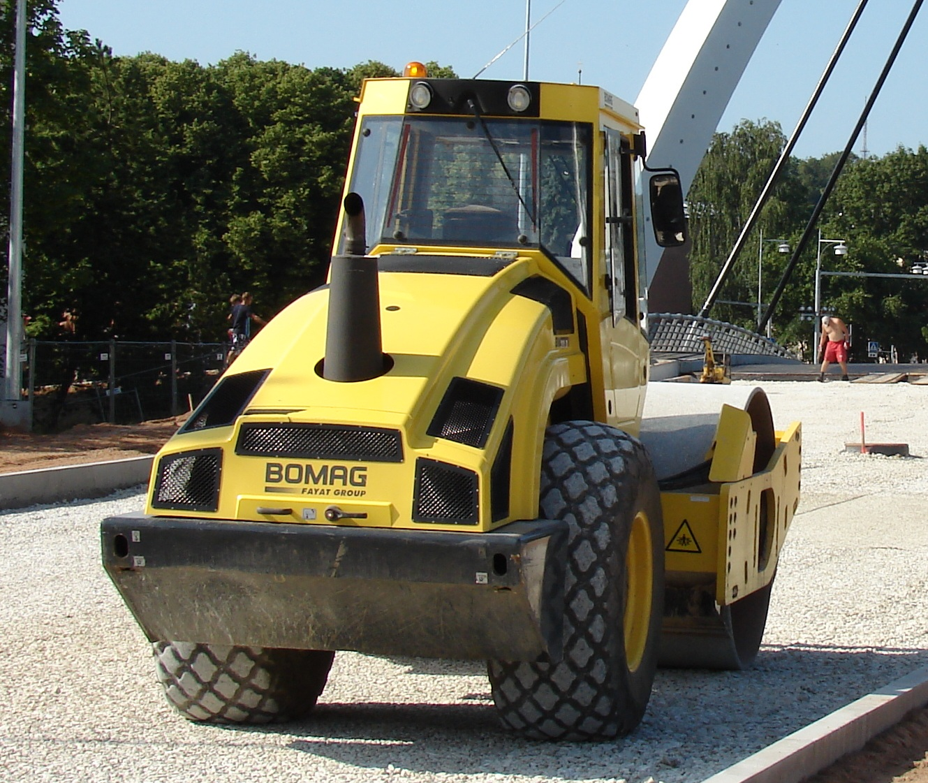 Bomagi Teerull Tartus Võidu sillal. Aasta siis oli 2009.